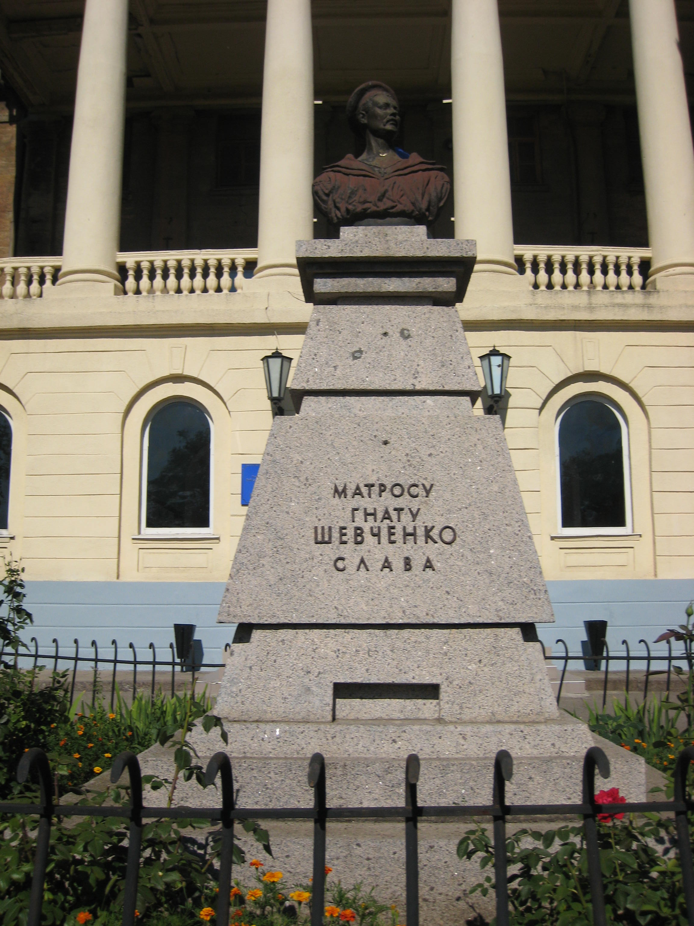 Monument to Ignat Shevchenko in Mykolaiv, Ukraine.